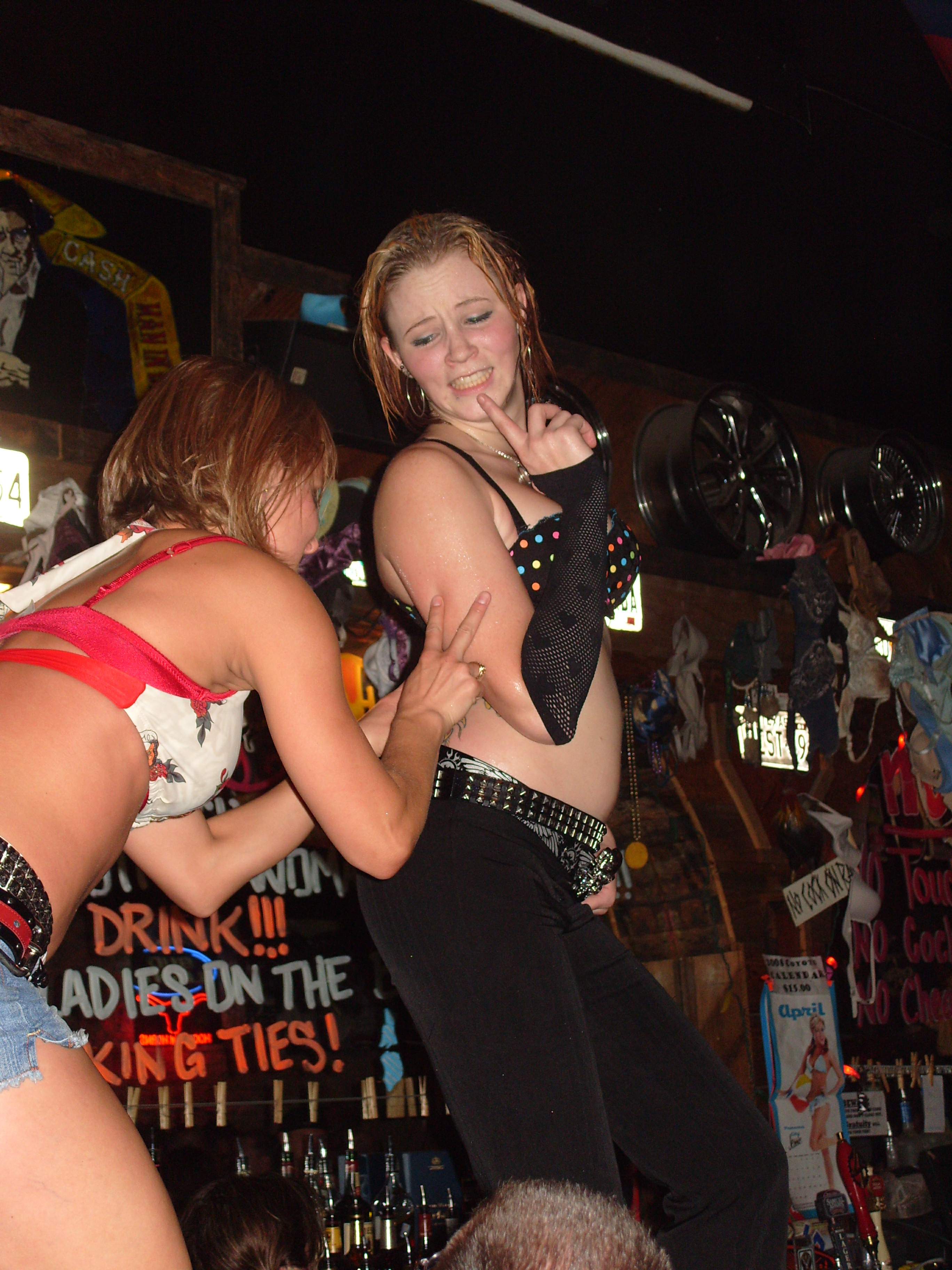 Two Coyote Ugly bar dancers in Texas